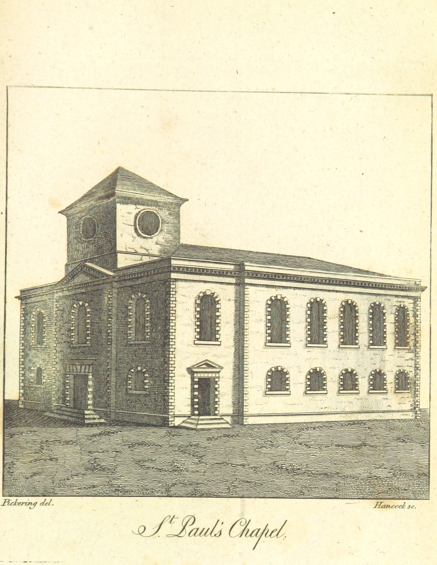 Image extracted from page 315 of An history of Birmingham ... With a new introduction by Christopher R. Erington., by William Hutton. Original held and digitised by the British Library. Copied [ Note: The colours, contrast and appearance of these illustrations are unlikely to be true to life. They are derived from scanned images that have been enhanced for machine interpretation and have been altered from their originals.